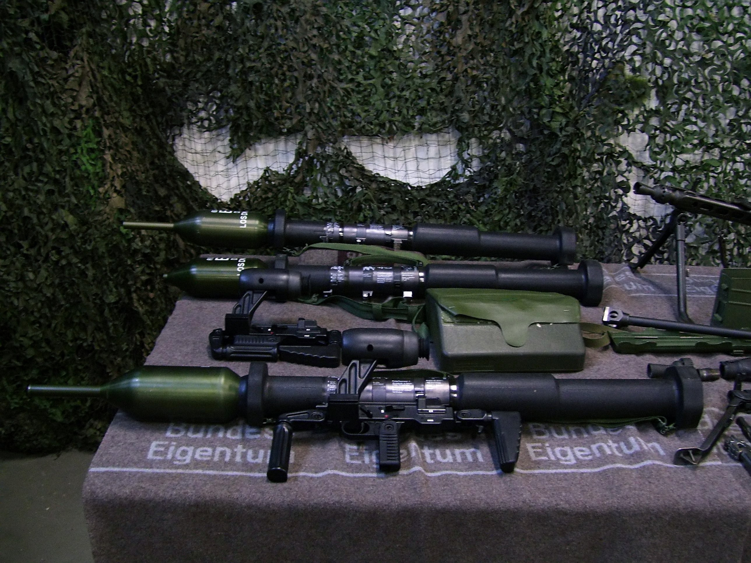 Weapons of the german Military Police